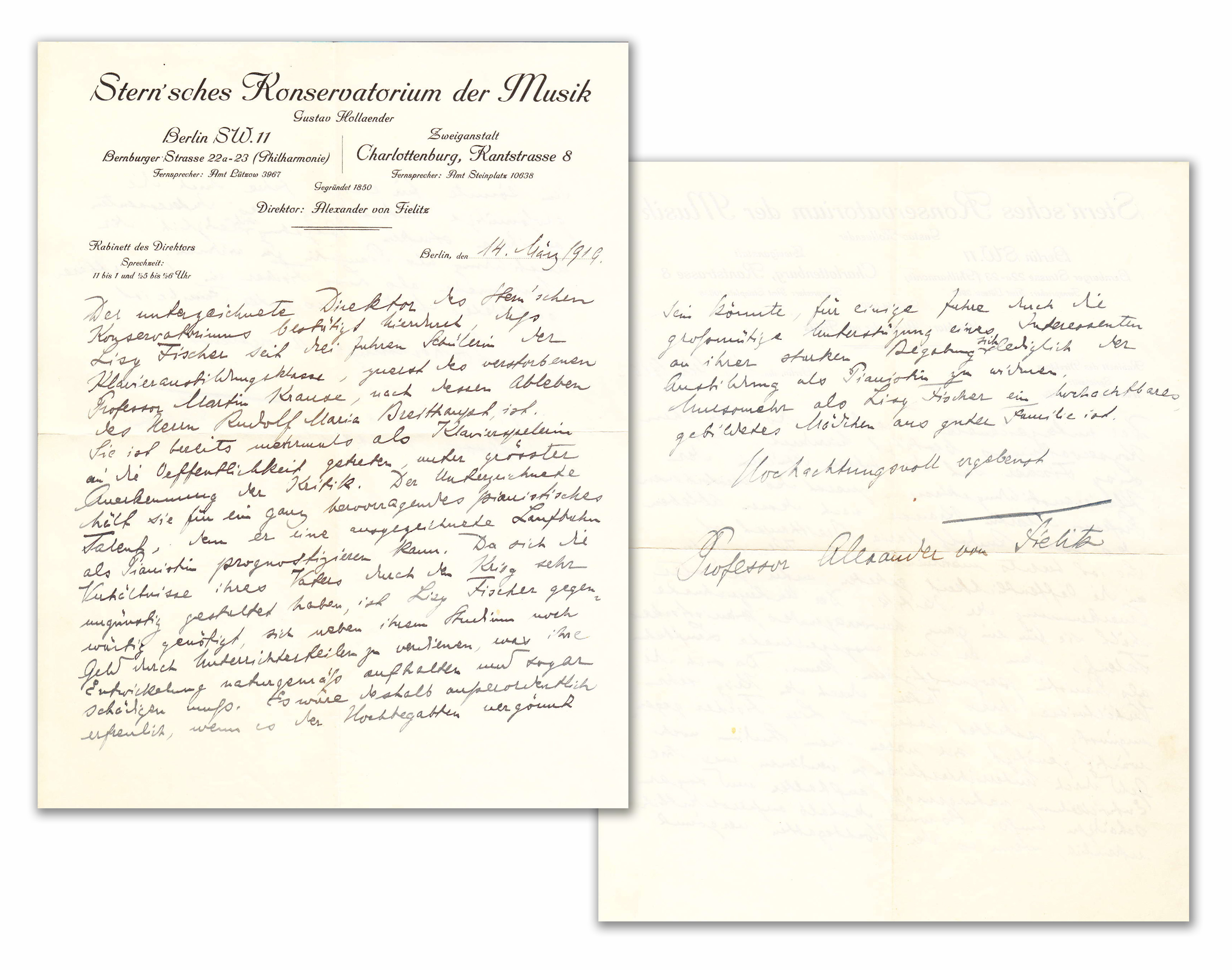 Copy of original letter in family archives